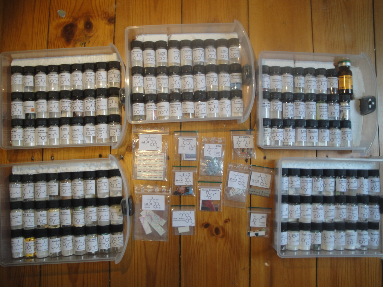 A large collection of designer drugs.